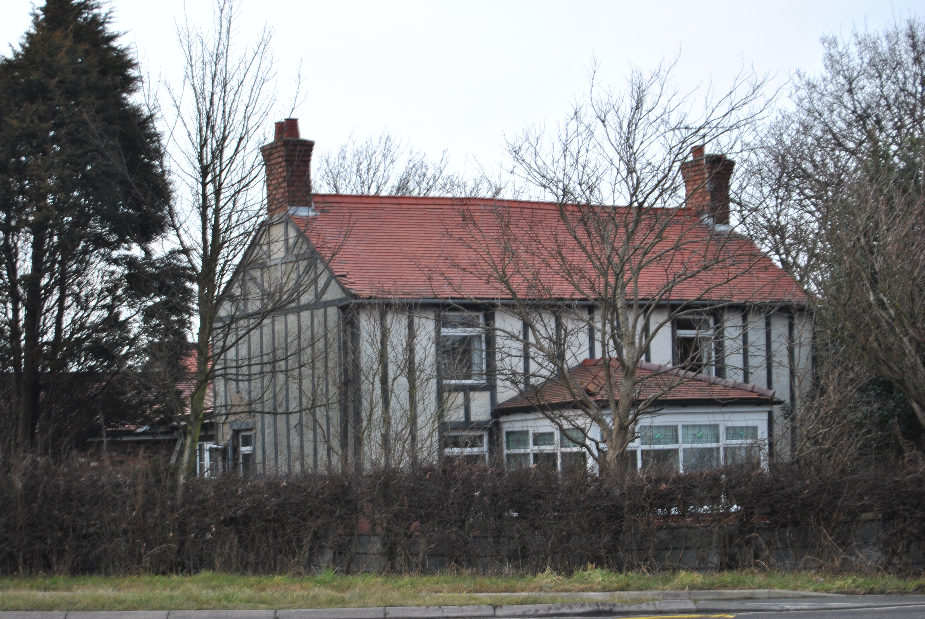 View of Greaves Hall Lodge at Sugar Stubbs Lane 2010